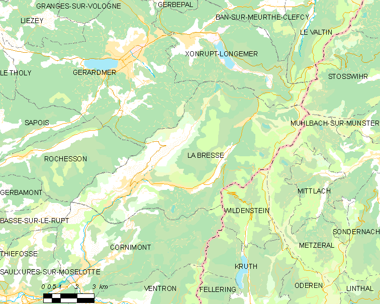 Map of French municipality La Bresse